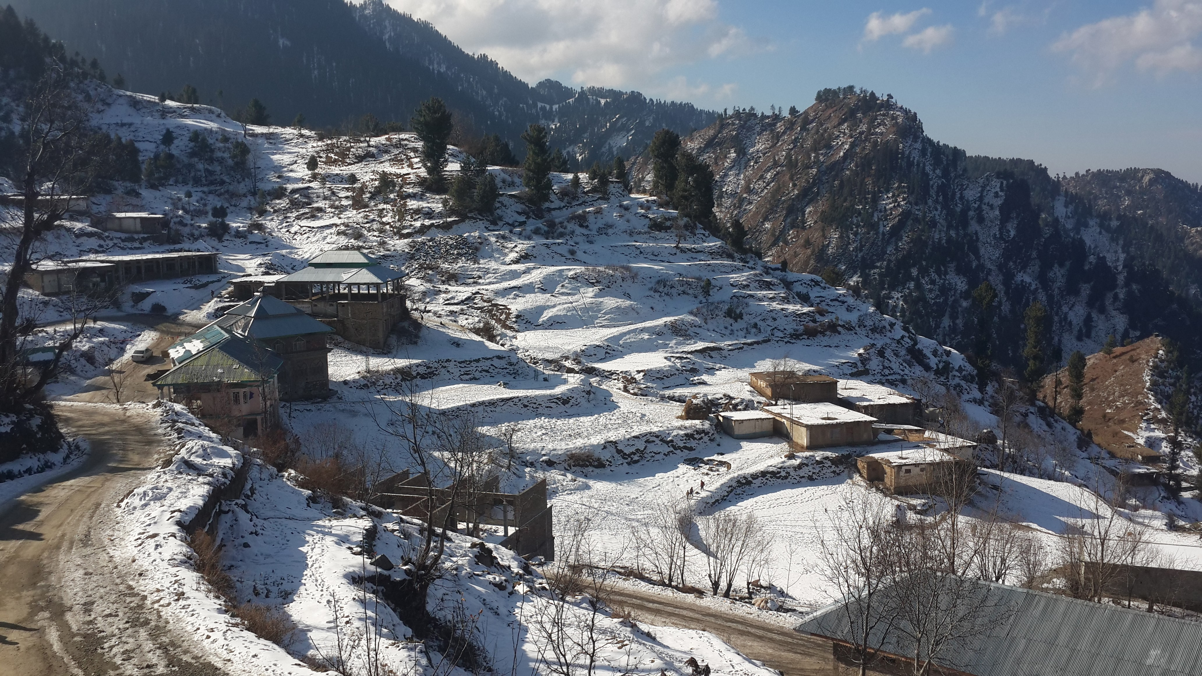 The terraced village of Malam Jabba in Swat Valley